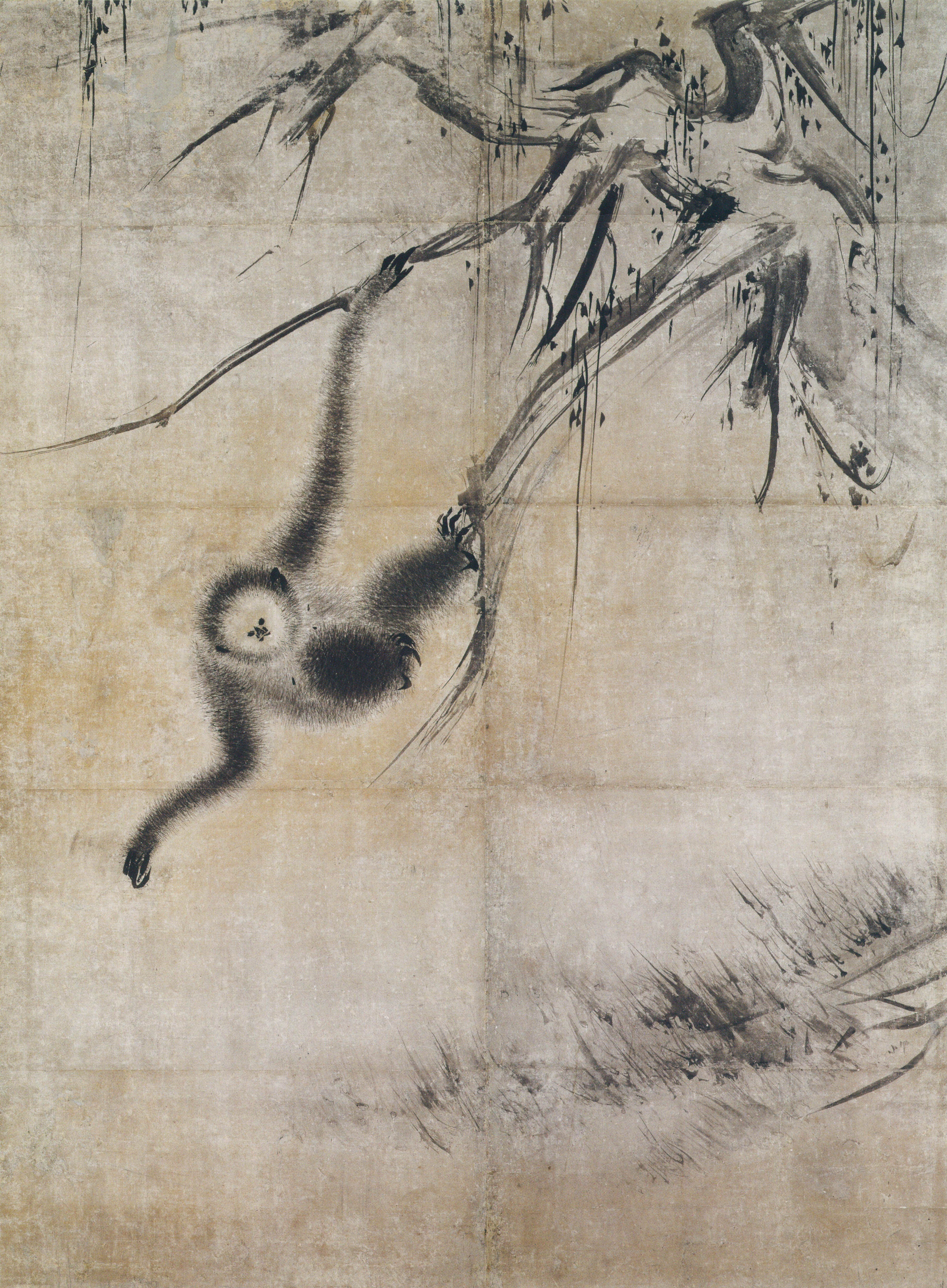 paintings of monkeys in dead trees（the left part）Important Cultural Properties of Japan